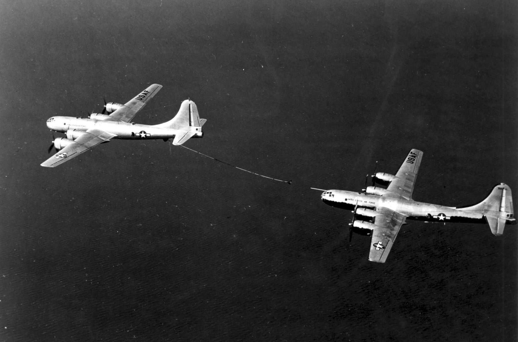 Hose and Drogue equipped KB-29M refuels a KB-29MR modified with a nose probe. (U.S. Air Force photo)